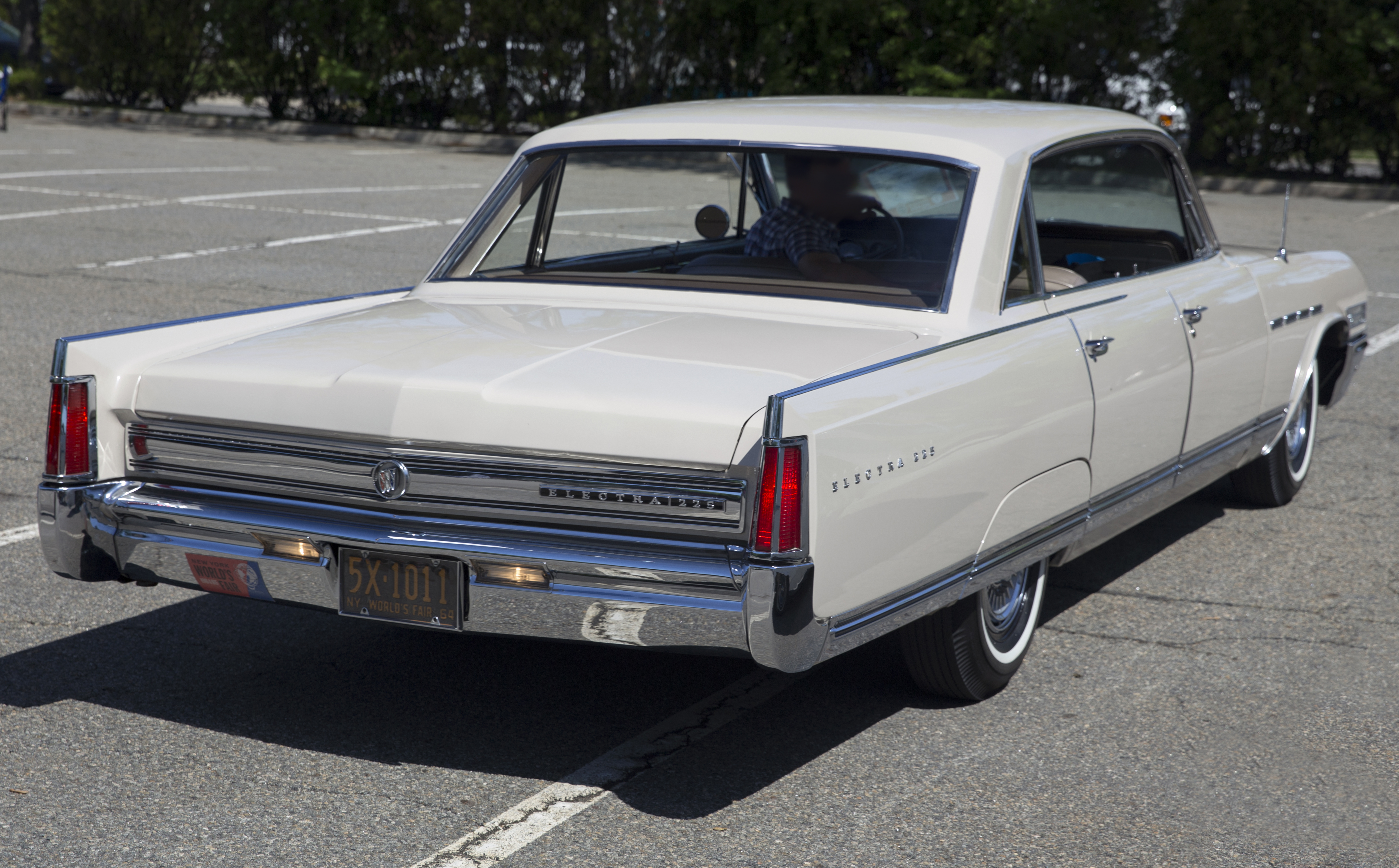 A 1964 Buick Electra 225 four-door six-window pillarless sedan in Wantagh, Long Island, NY. A nice, chiseled design. This design was series 4829; 11,663 were built in 1964.